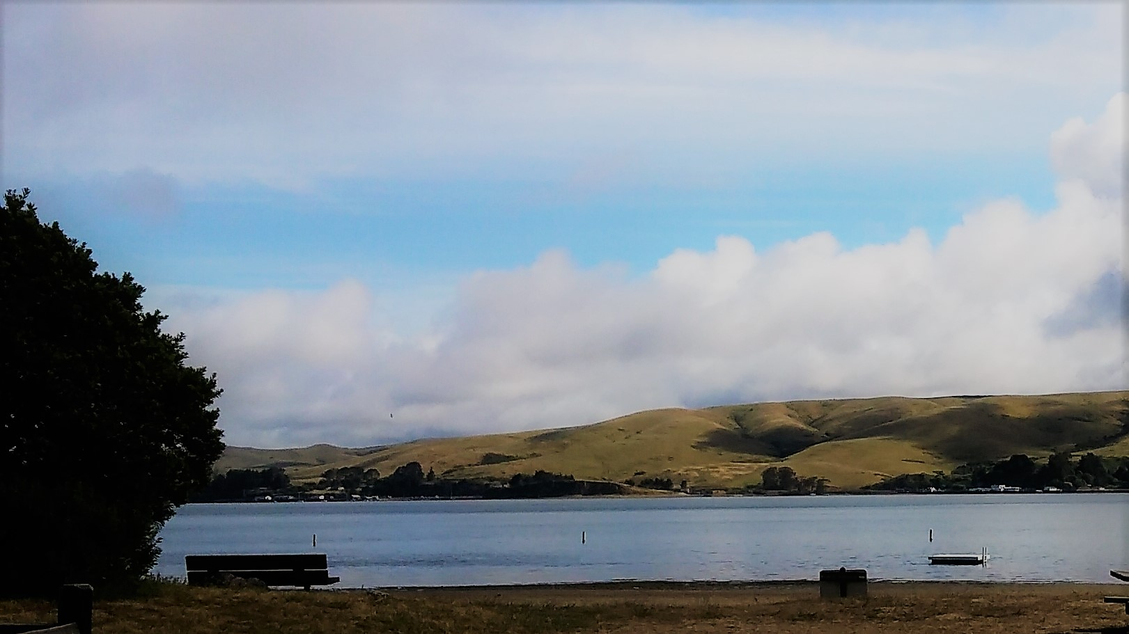 Tamales Bay State Park